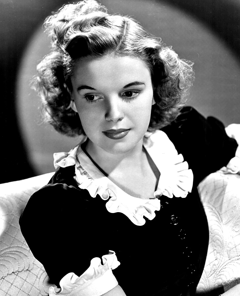 Original studio photo of Judy Garland.